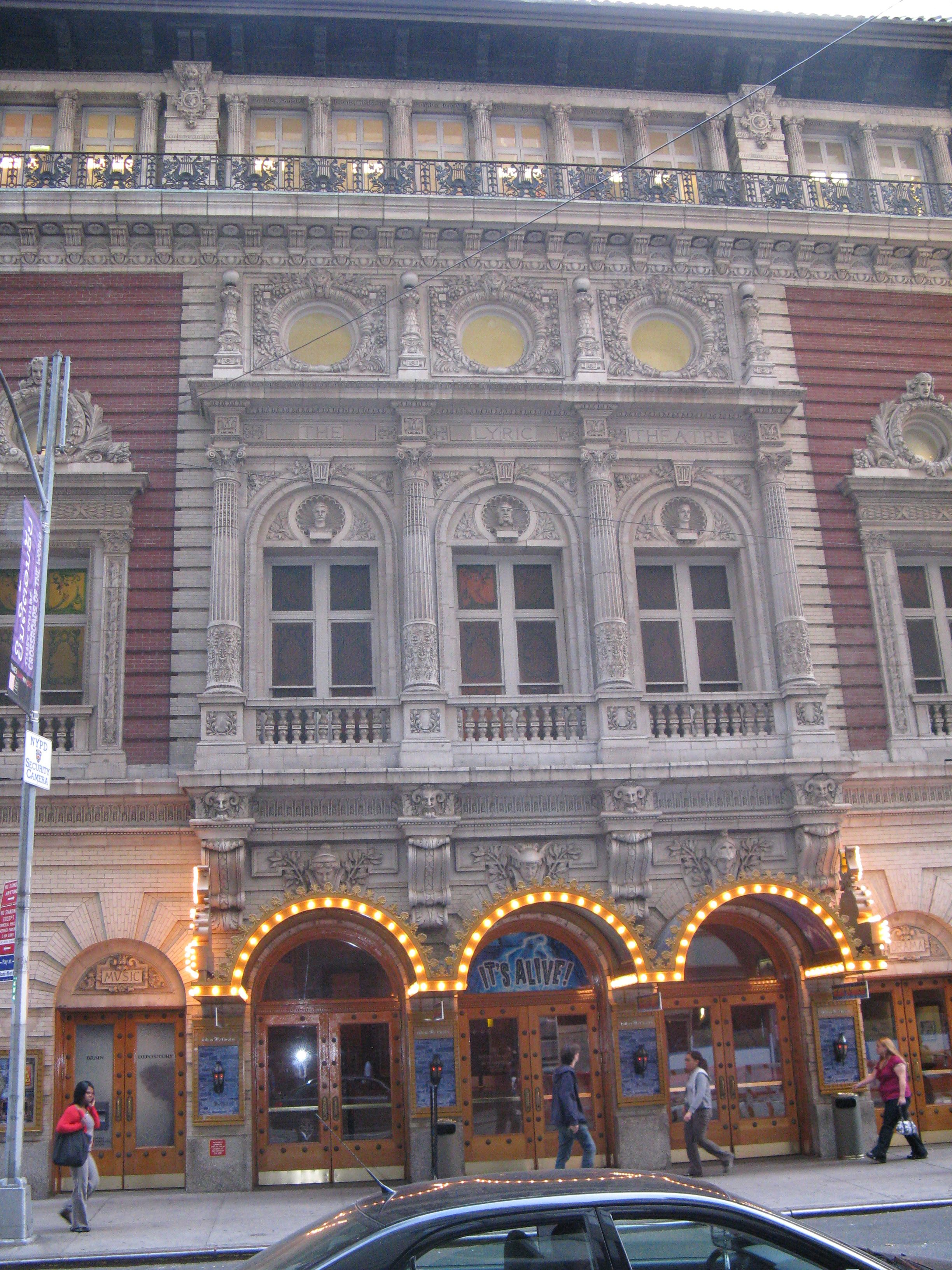 Lyric Theatre, New York, 43rd St. entrance. When the interior of the theatre was demolished in 1996, this facade was retained on W. 43rd Street. The busts shown on the 2nd floor are of W. S. Gilbert, Arthur Sullivan and Reginald De Koven